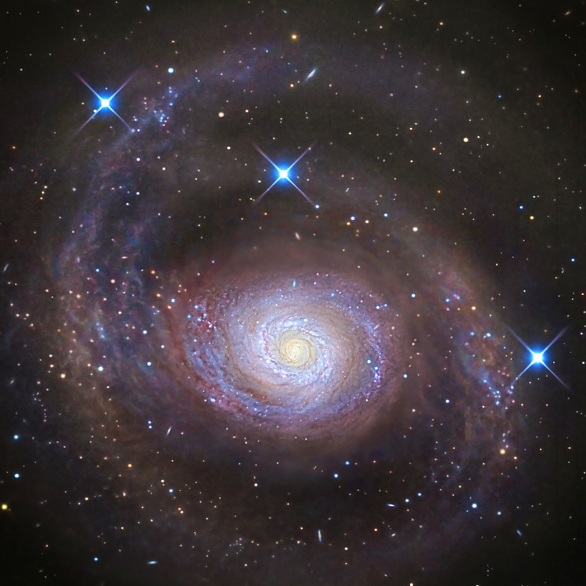 Beautiful spiral galaxy M94 (Messier 94) lies a mere 15 million light-years distant in the northern constellation of the hunting dogs, Canes Venatici. A popular target for astronomers, the brighter inner part of the face-on galaxy is about 30,000 light-years across. Traditionally, deep images have been interpreted as showing M94's inner spiral region surrounded by a faint, broad ring of stars. But a new multi-wavelength investigation has revealed previously undetected spiral arms sweeping across the outskirts of the galaxy's disk, an outer disk actively engaged in star formation. At optical wavelengths, M94's outer spiral arms are followed in this remarkable discovery image, processed to enhance the outer disk structure. Background galaxies are visible through the faint outer arms, while the three spiky foreground stars are in our own Milky Way galaxy.